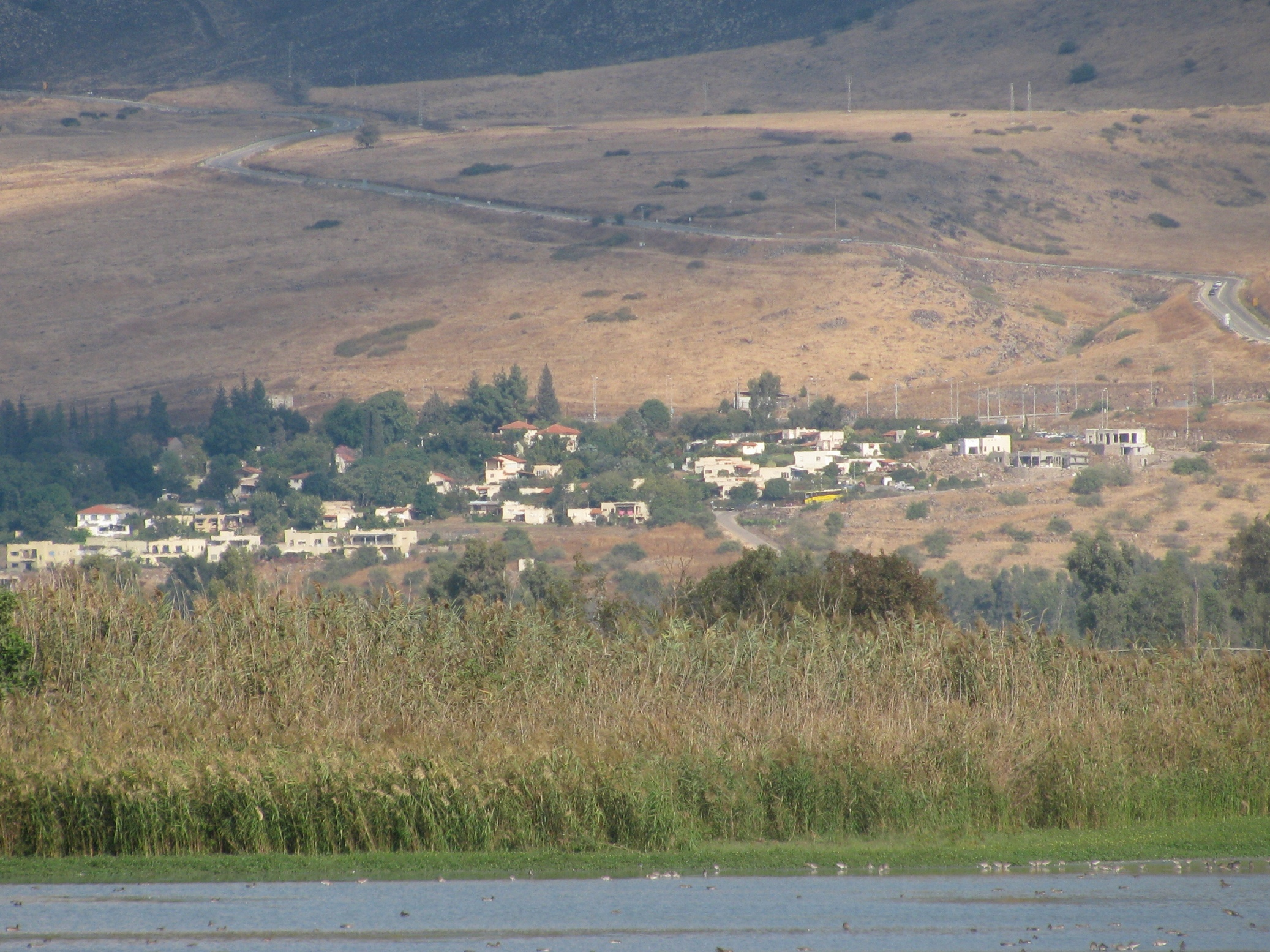 Geography of Israel